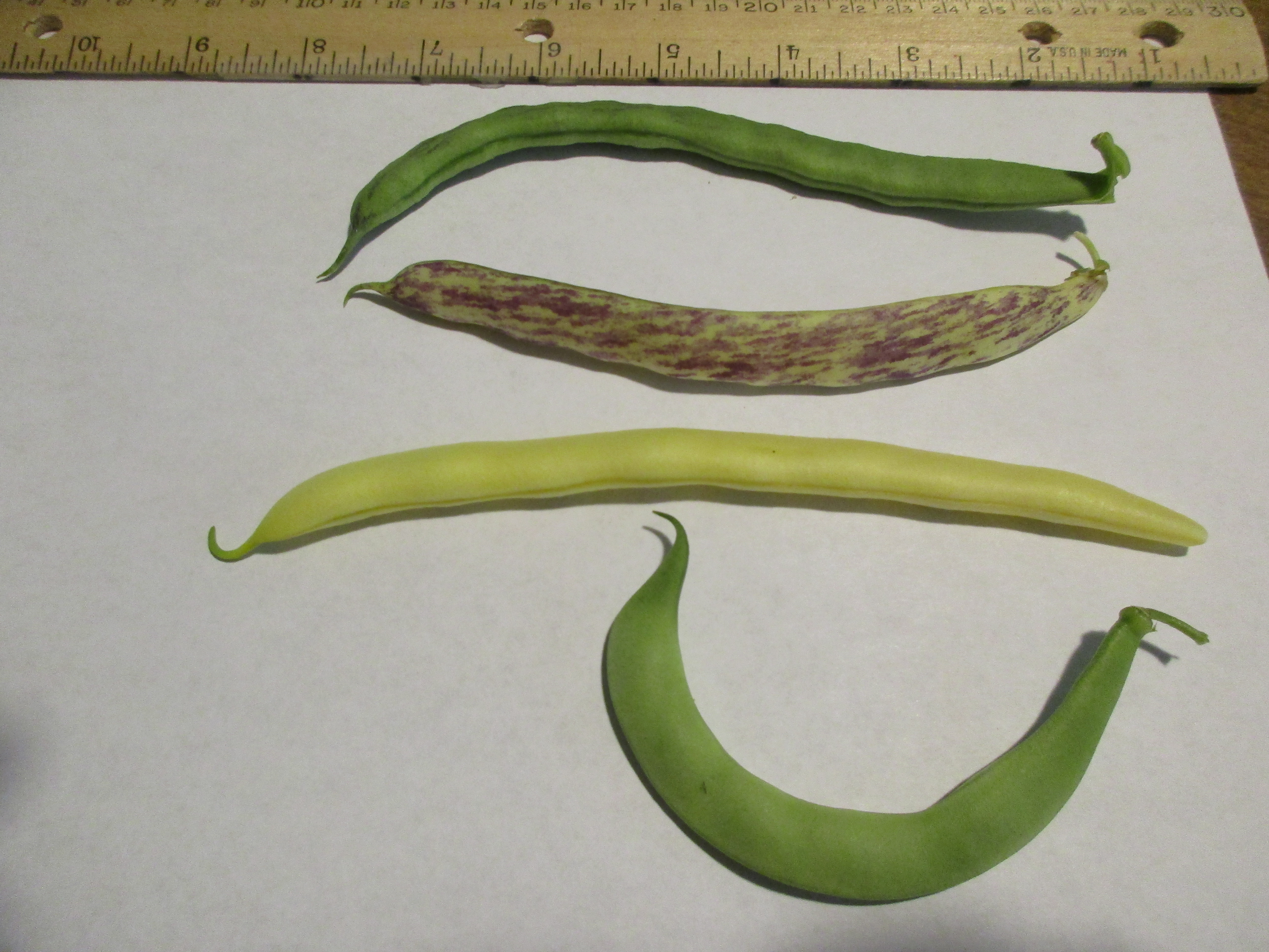 This image presents four different varieties of the common green bean, Phaseolus vulgaris. These varieties, grown in a suburban garden, are marketed as heirloom beans under the following names (top to bottom): 1. Rattlesnake snap bean (pole habit) 2. Dragon's Tongue (wax bean; bush habit) 3. Pencil Pod Golden Wax (wax bean; bush habit) 4. "Sultan's Green Crescent" (snap bean; pole habit)